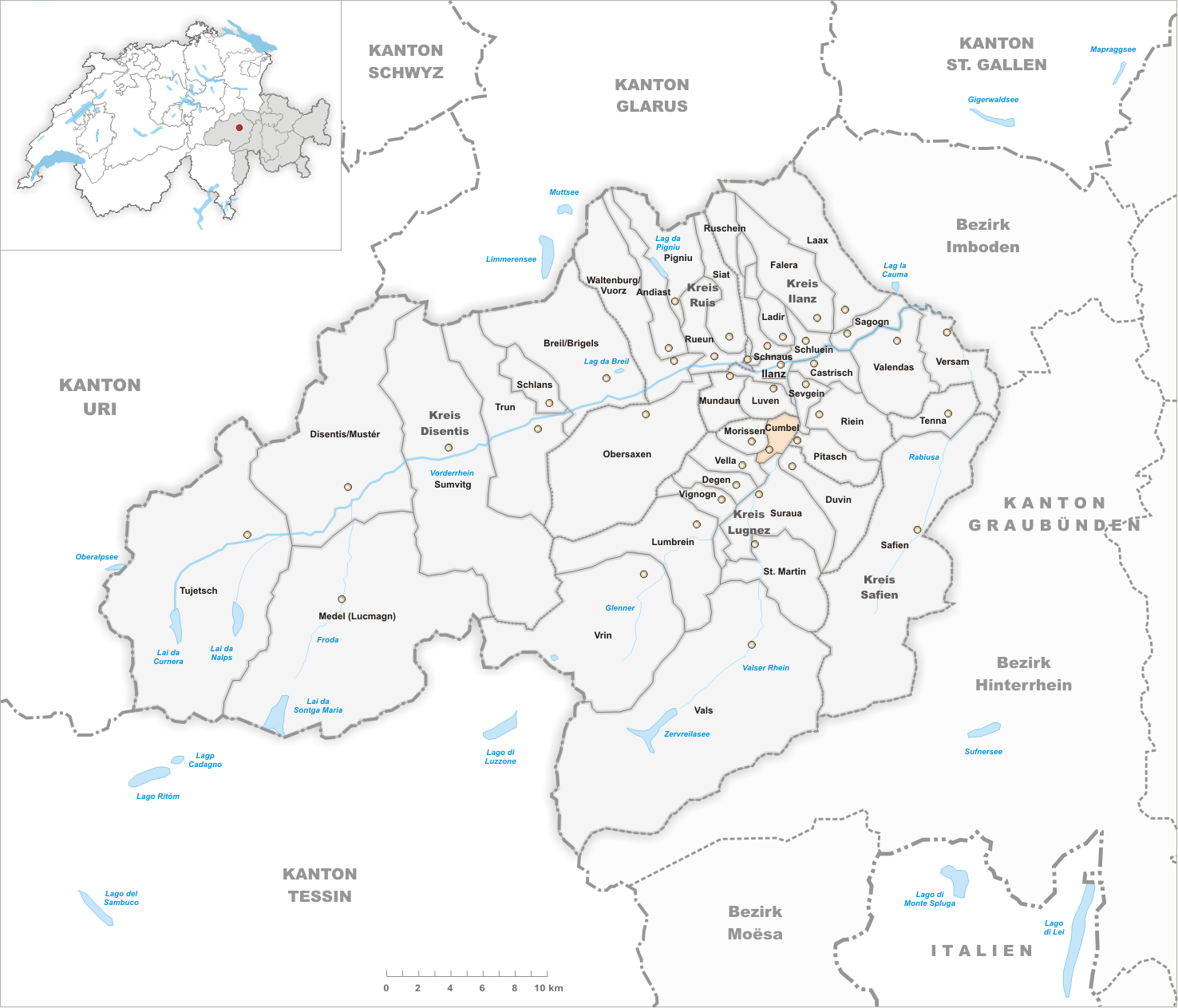 Municipality Cumbel